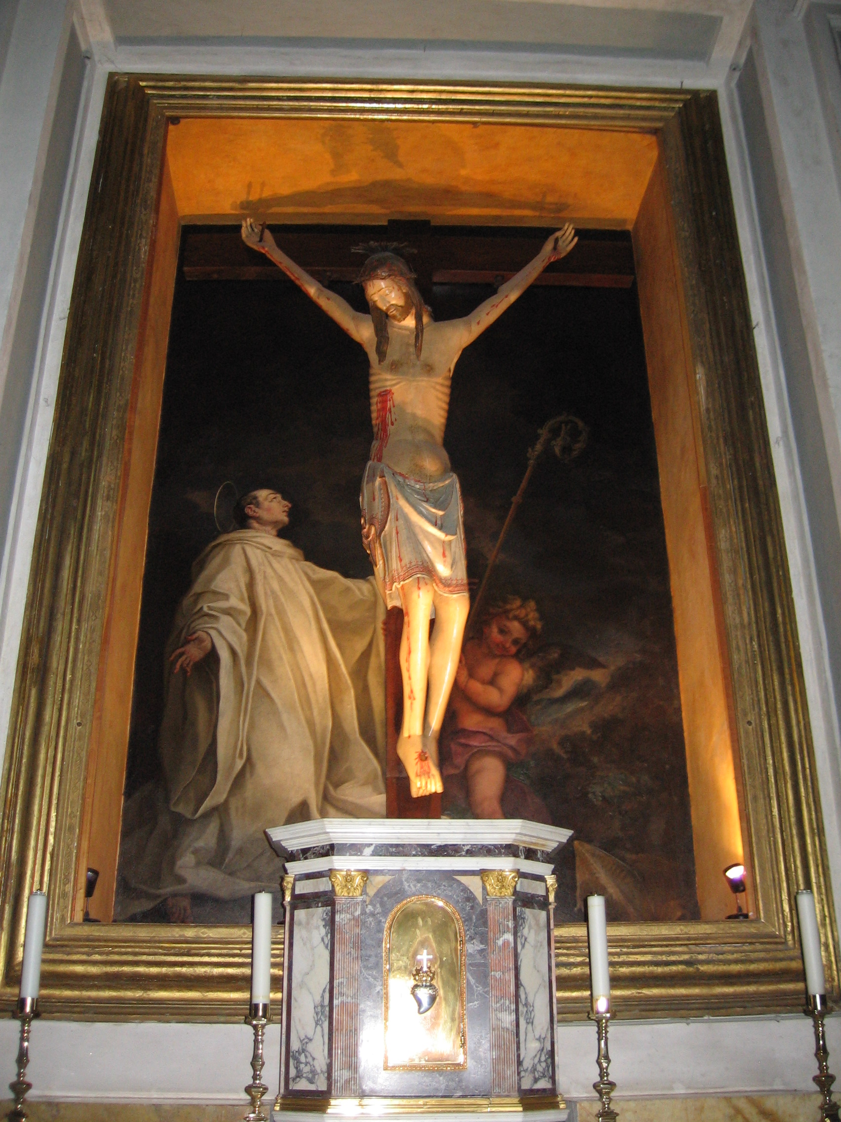 A painting of Saint Bernardo Tolomei founder of the Benedictine Abbey of Monte-Oliveto (Tuscany, Italy)